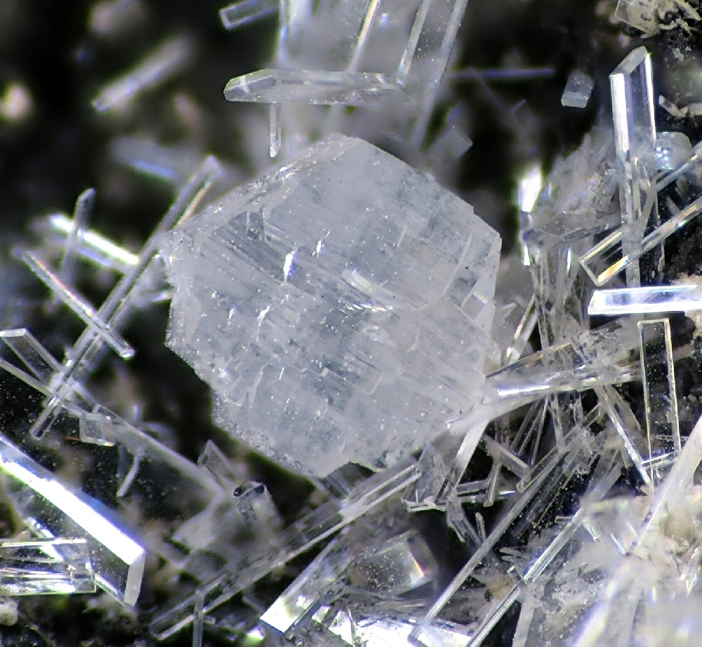 Georgiadesite, Paralaurionite Locality: Vrissaki Point slag locality, Vrissaki area, Lavrion District slag localities, Lavrion (Laurion; Laurium) District, Attikí (Attica; Attika) Prefecture, Greece Monoclinic georgiadesite crystal on tabular paralaurionite xls. Picture width 3 mm. Collection and photograph Christian Rewitzer This Photo was Photo of the Day - 4th Mar 2010